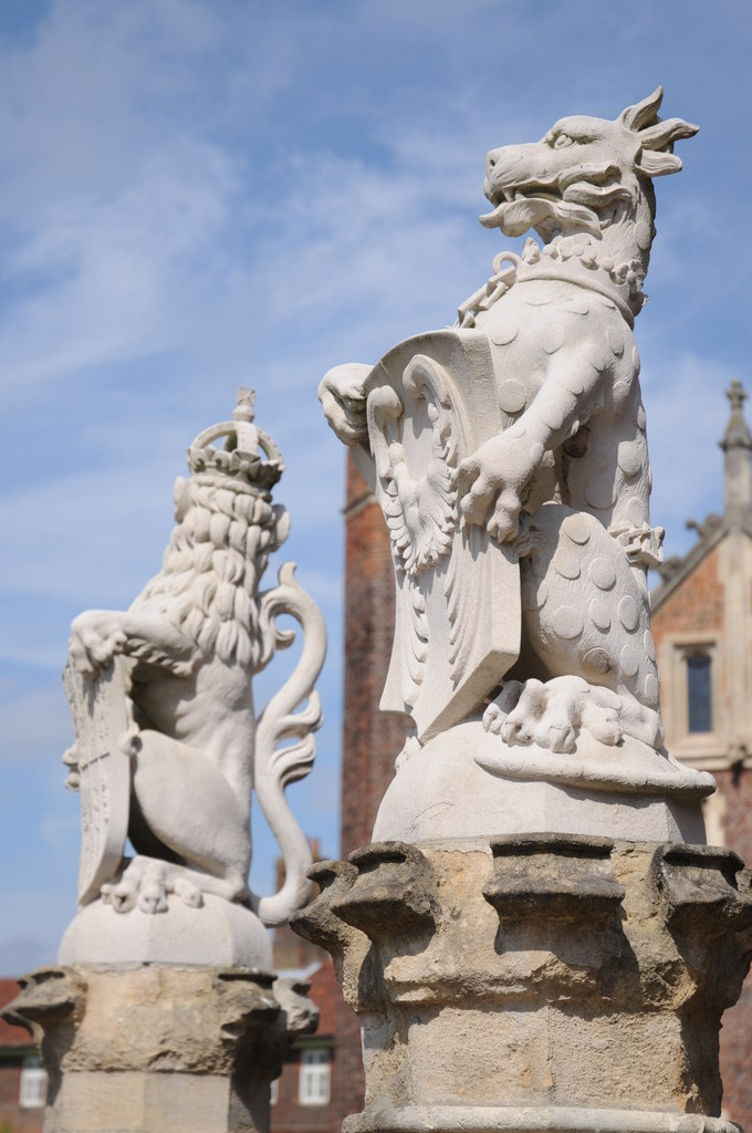 Ten statues of heraldic animals, called the King's Beasts, stand on the bridge over the moat leading to the great gatehouse. These statues represent the ancestry of King Henry VIII and his wife Jane Seymour: the lion of England, the Royal dragon, the Tudor dragon, the black bull of Clarence, the yale of Beaufort, the white lion of Mortimer, the white greyhound of Richmond, the Seymour lion, the Seymour panther and the Seymour unicorn.